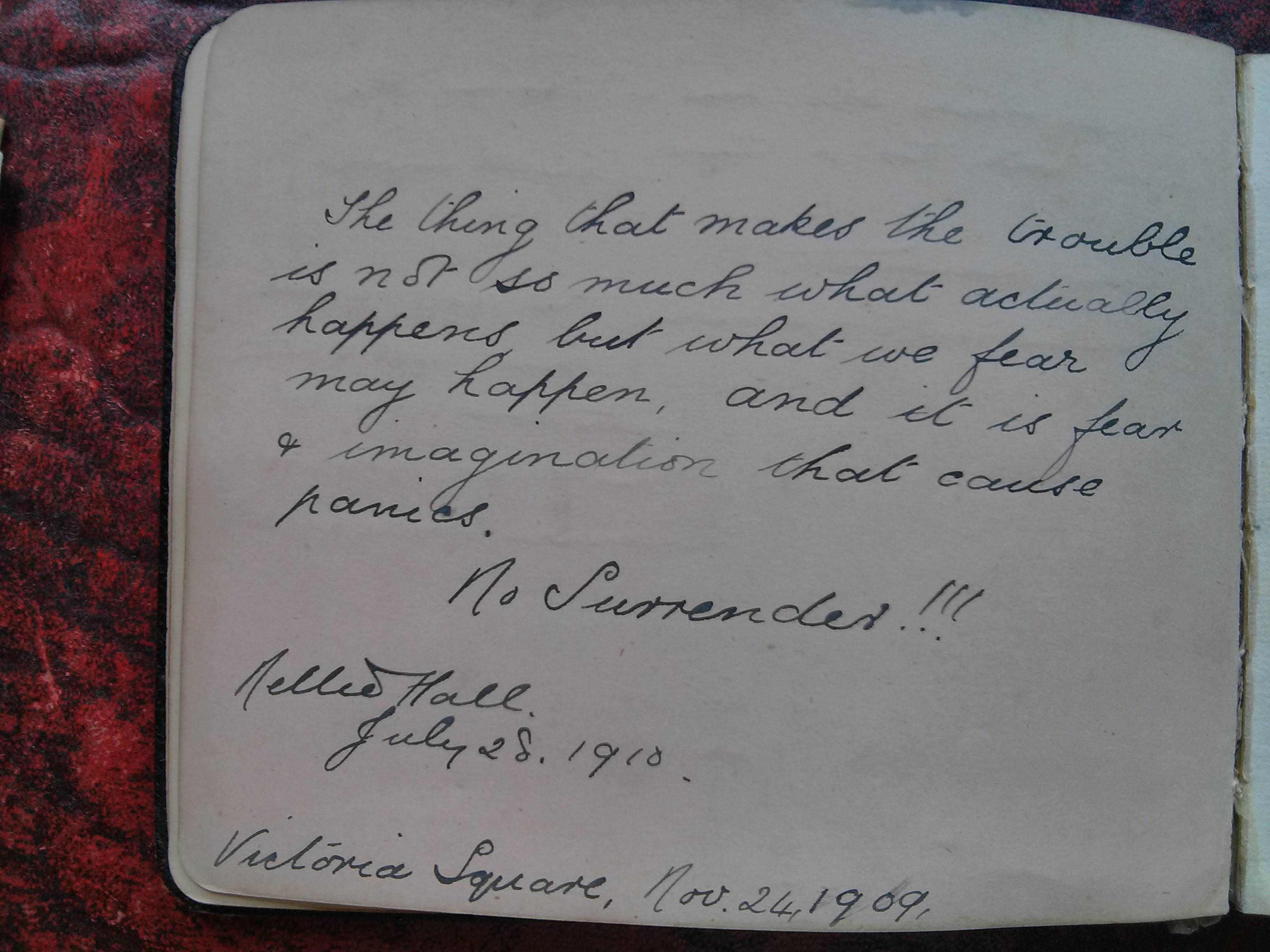 Dedication by Nellie Hall in Mabel Cappers WSPU prisoners scrapbook